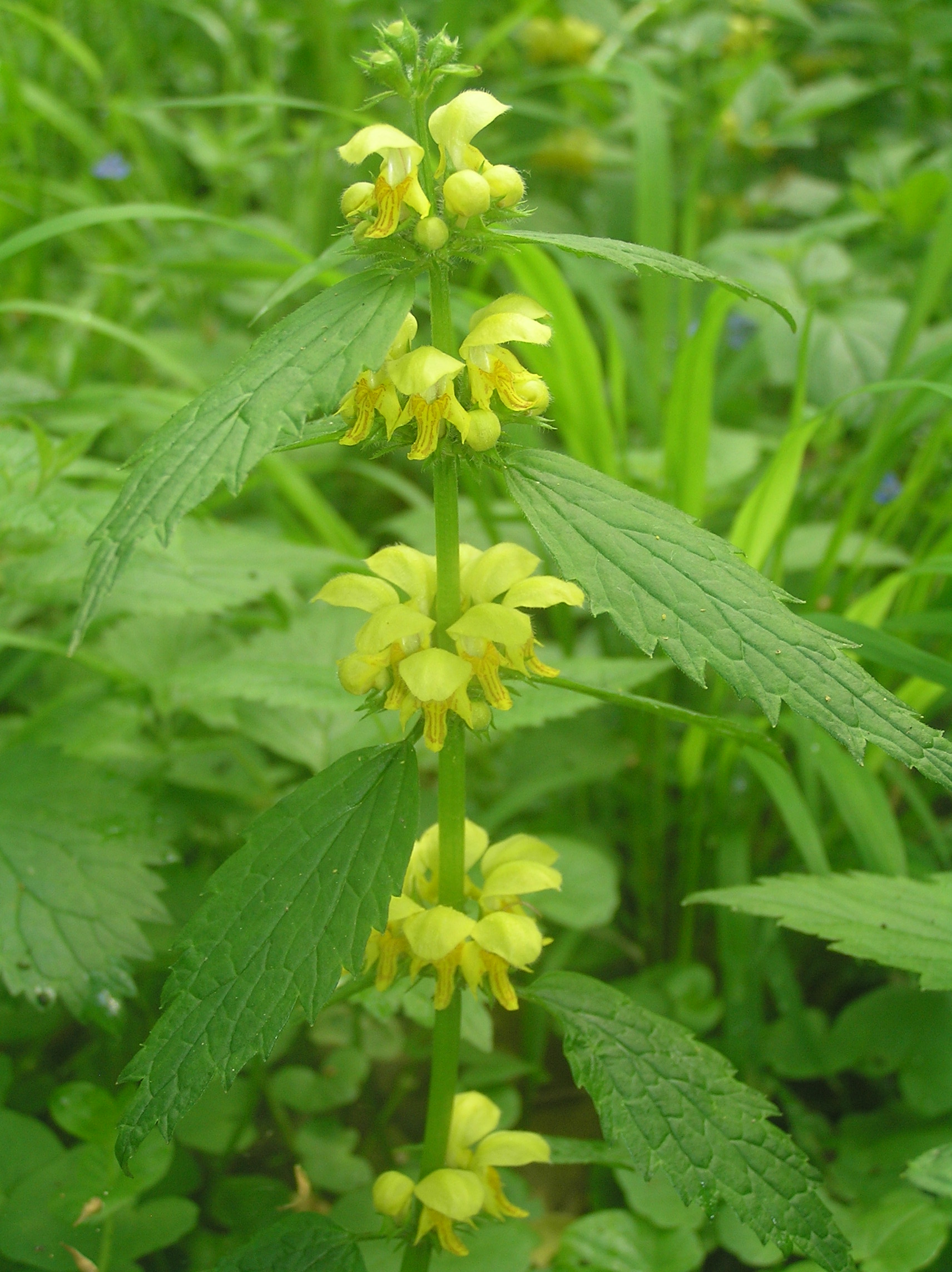 Galeobdolon montanum, near Pohořelice, Southern Moravia, Czech Republic